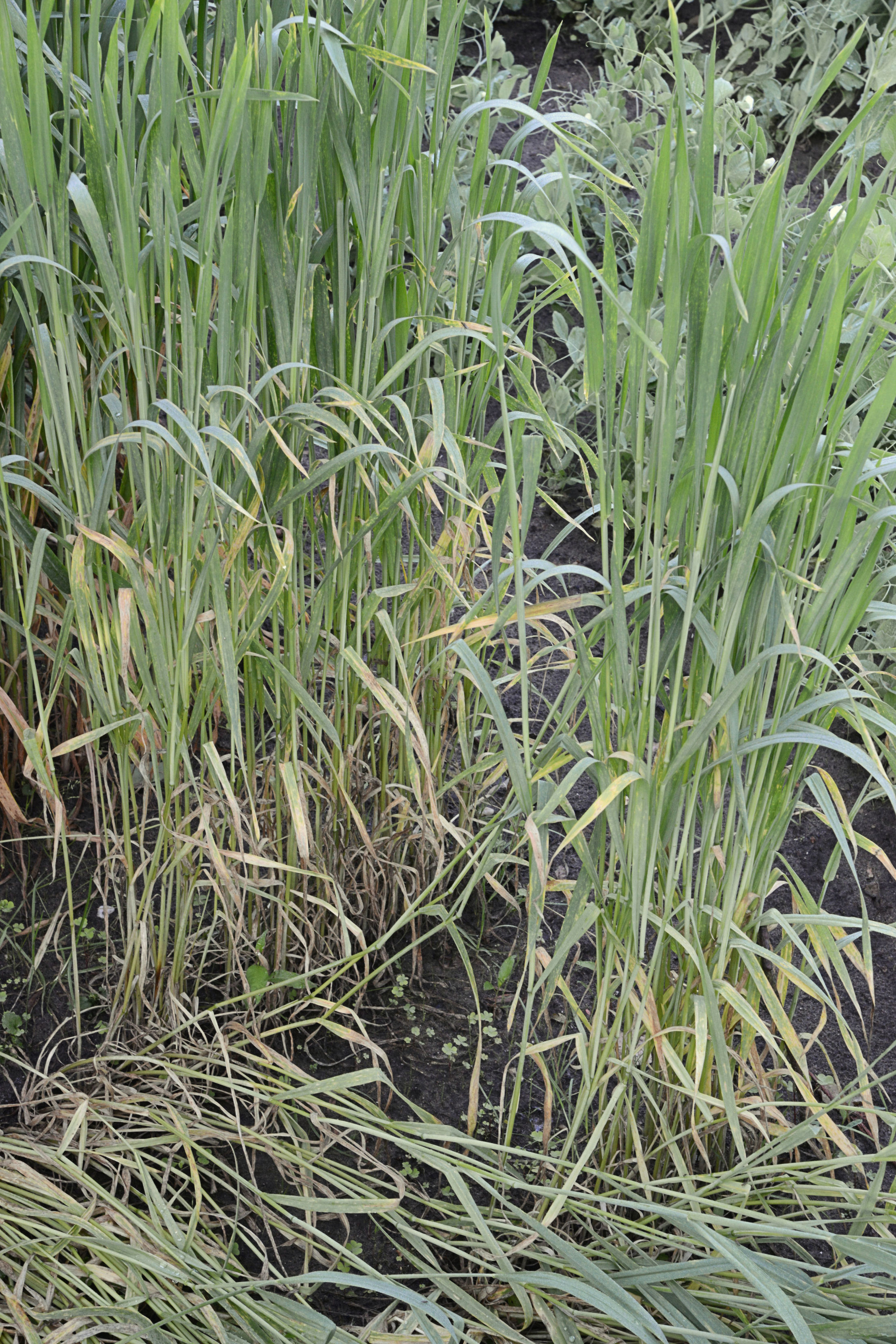 Flattend Triticum dicoccum 'bruinkafemmertarwe'.